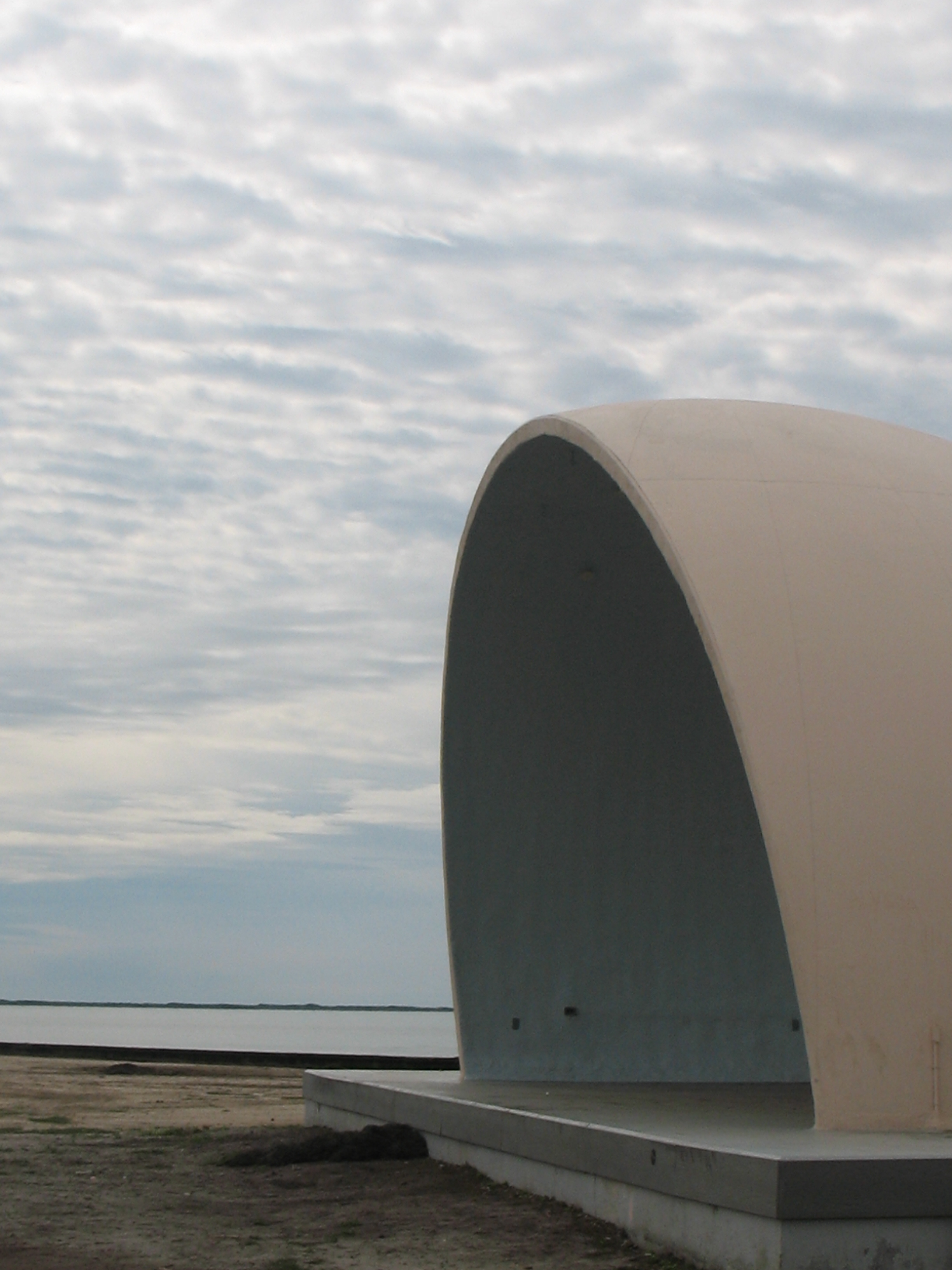 A Long Island Band Shell - Shorefront Park Patchogue NY... Stevan